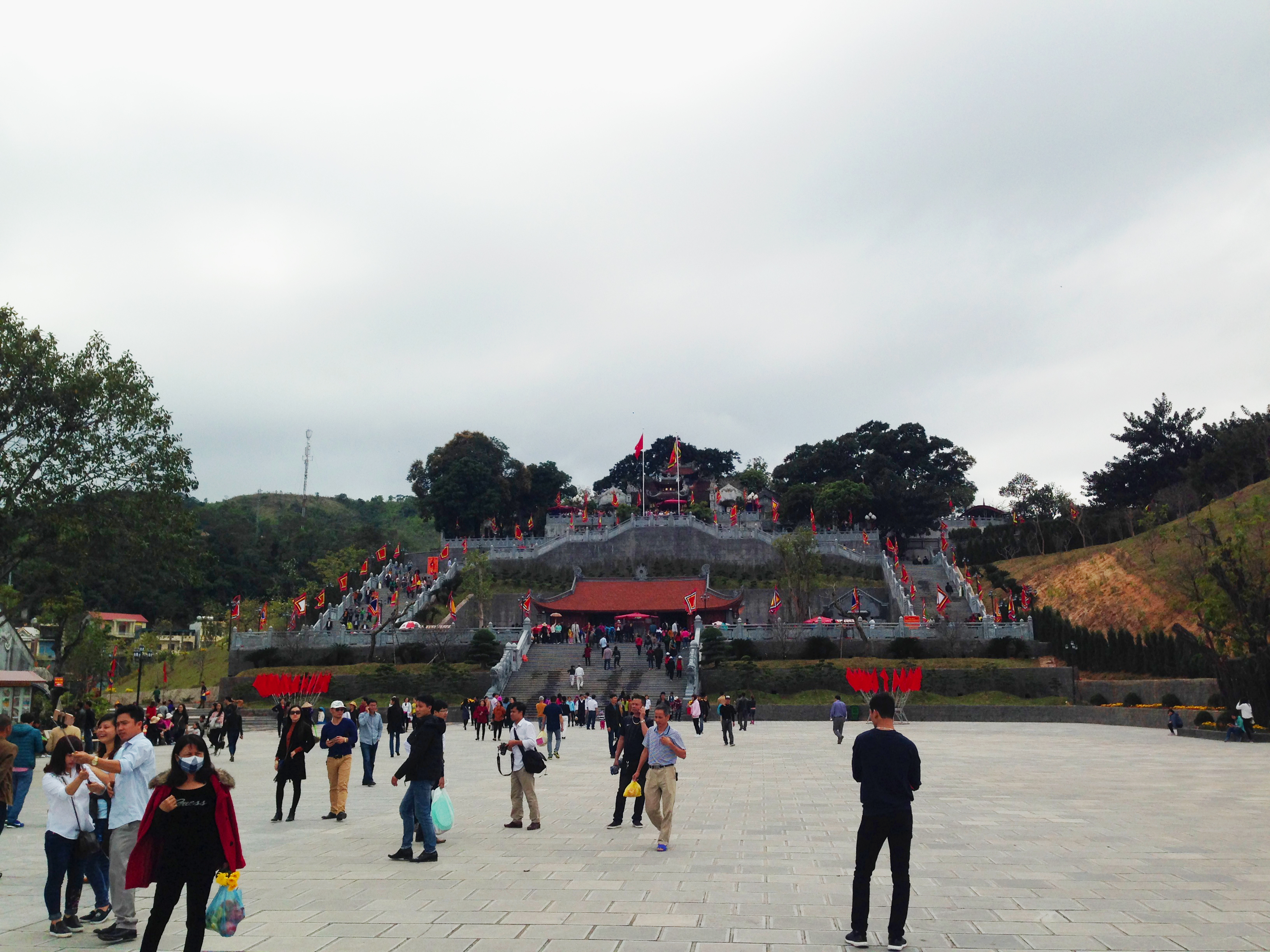 Cửa Ông Temple with Middle Shrine and Top Shrine on the carved hill with new blue-stone staircases and front courtyard with blue-stone pavers